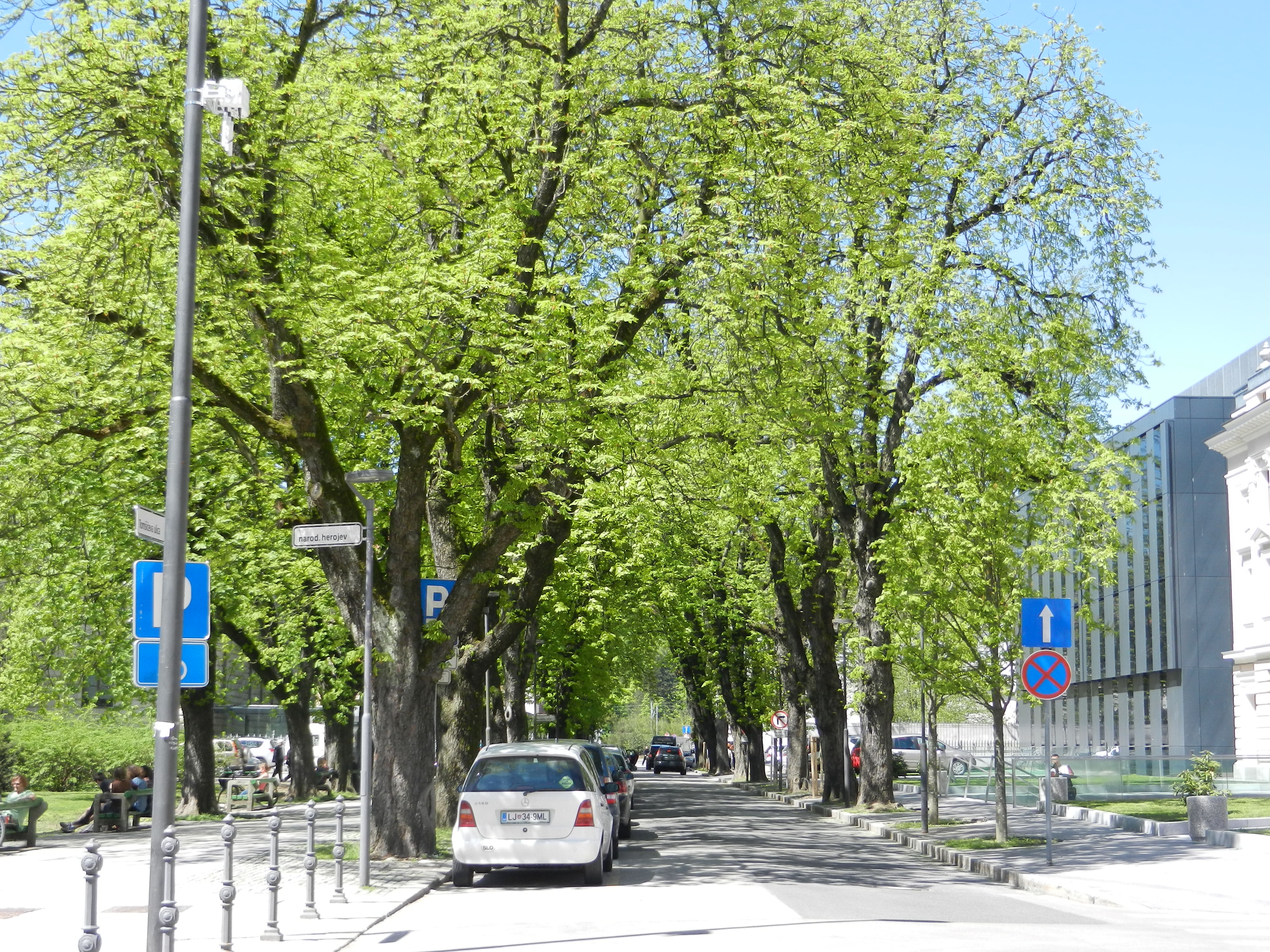 Avenue of chestnut trees in Ljubljana